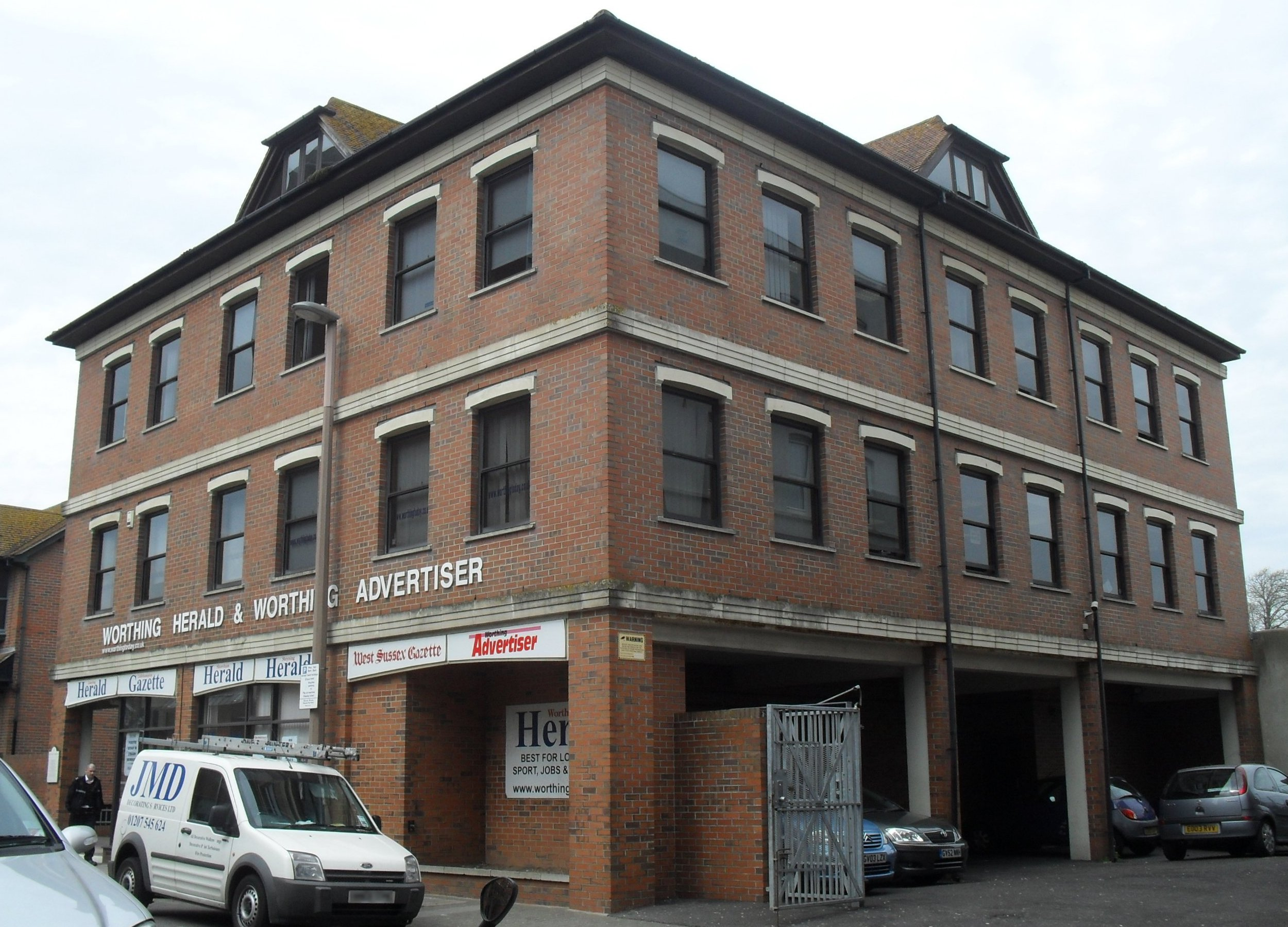 The offices of the Worthing Herald and Worthing Advertiser newspapers, Chatsworth Road, Worthing, West Sussex, England. Opened in 1991.